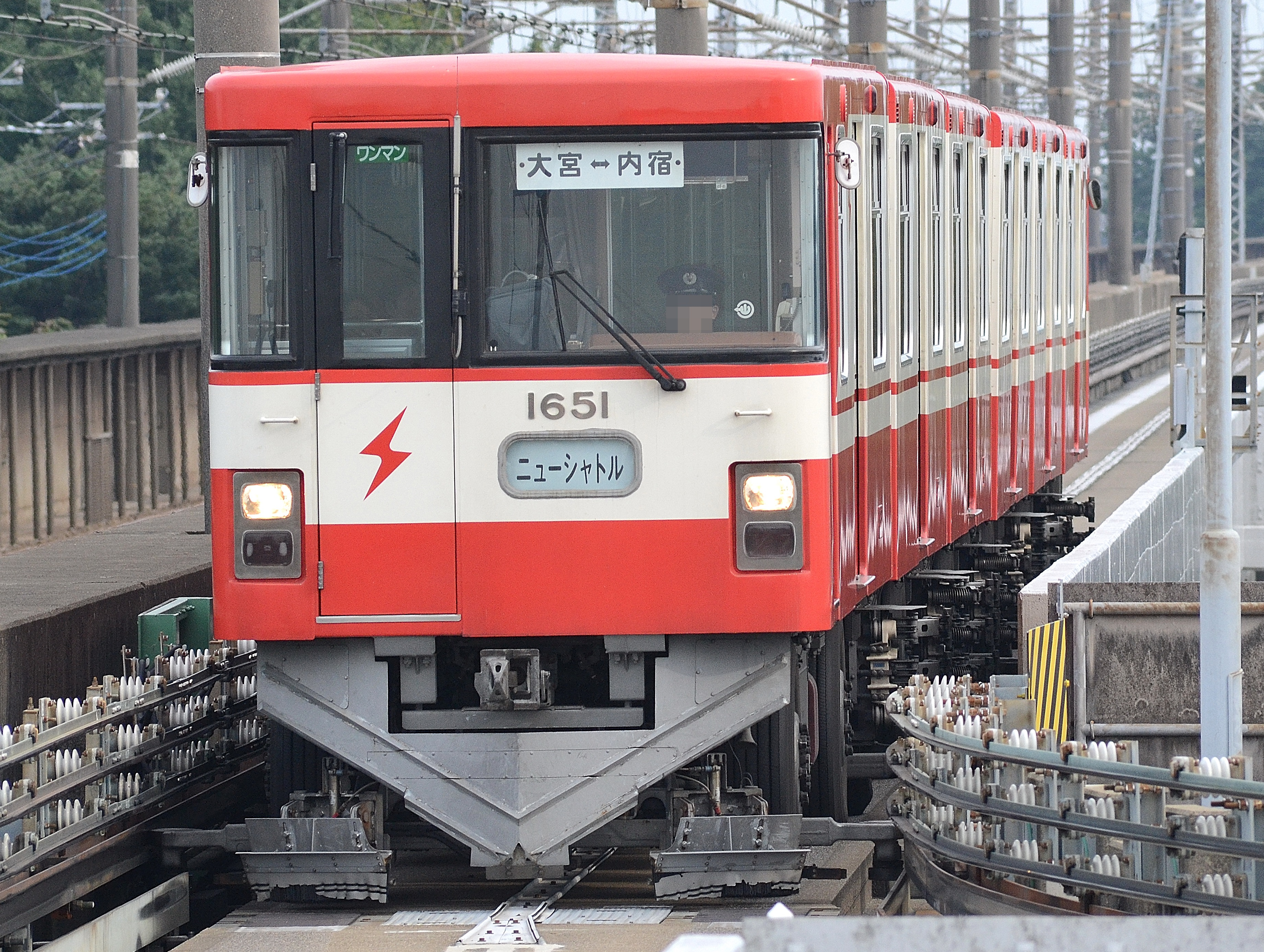 Saitama New Urban Transit "New Shuttle" 1050 series EMU set 51 approaching Hanuki Station